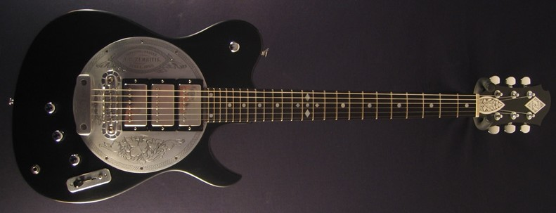 Source: own picture